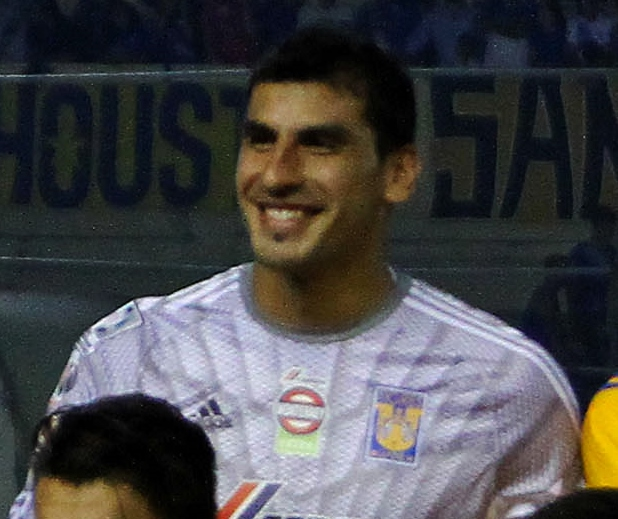 Manta, 19 de may (Andes).-El equipo Tigres de México se enfrenta a Emelec en el partido de ida por los cuartos de finales de la Copa Libertadores, en el estadio Jockay de la ciudad de Manta, ManabíFotos:César Muñoz/Andes Nahuel Guzmán